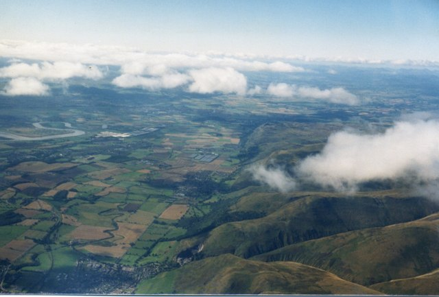 The Ochil Fault The fault, photographed from a glider, separates the highlands to the right [north] from the lowlands - the Forth valley, to the south. Meanders of the River Forth and the Carse of Stirling are to the left, the Ochil Hills to the right.